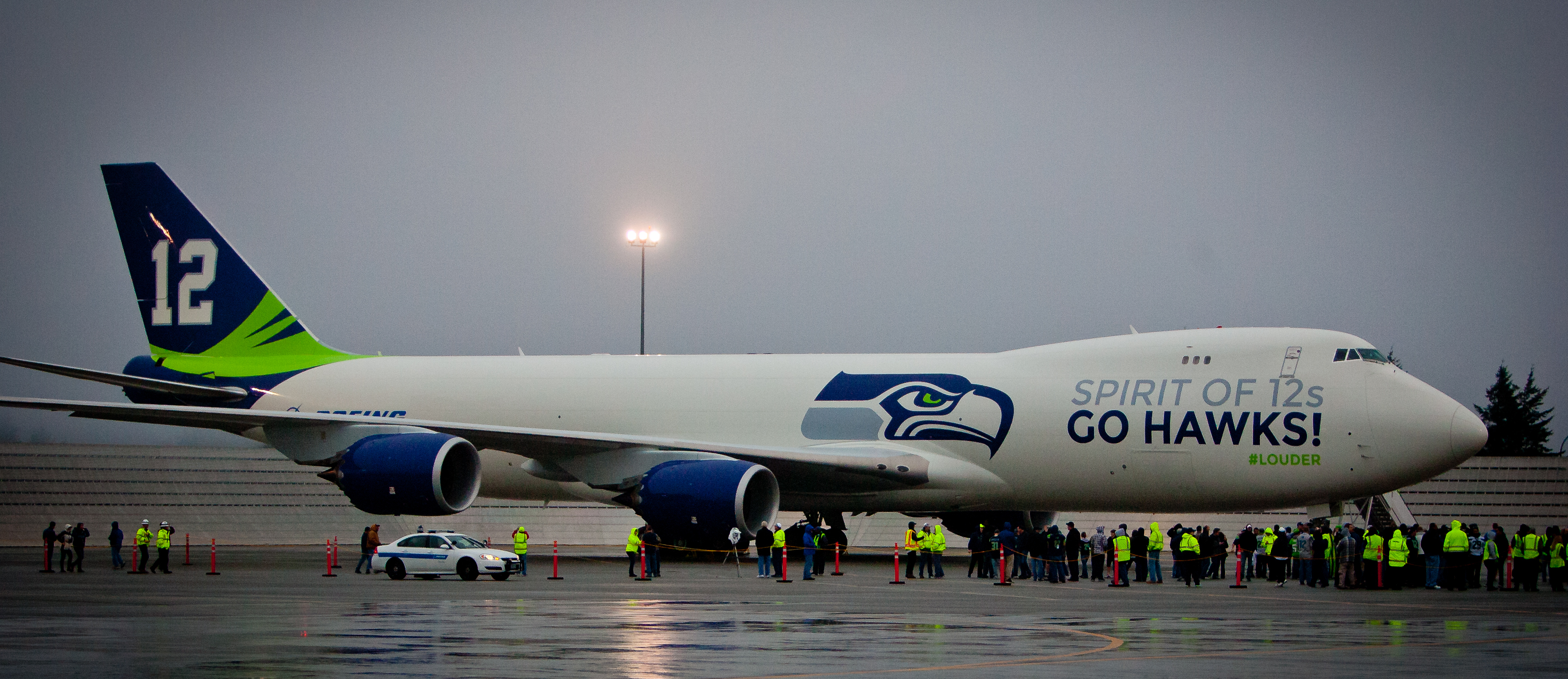 A Boeing 747 Cargo with custom Seattle Seahawks livery to celebrate the 12s.